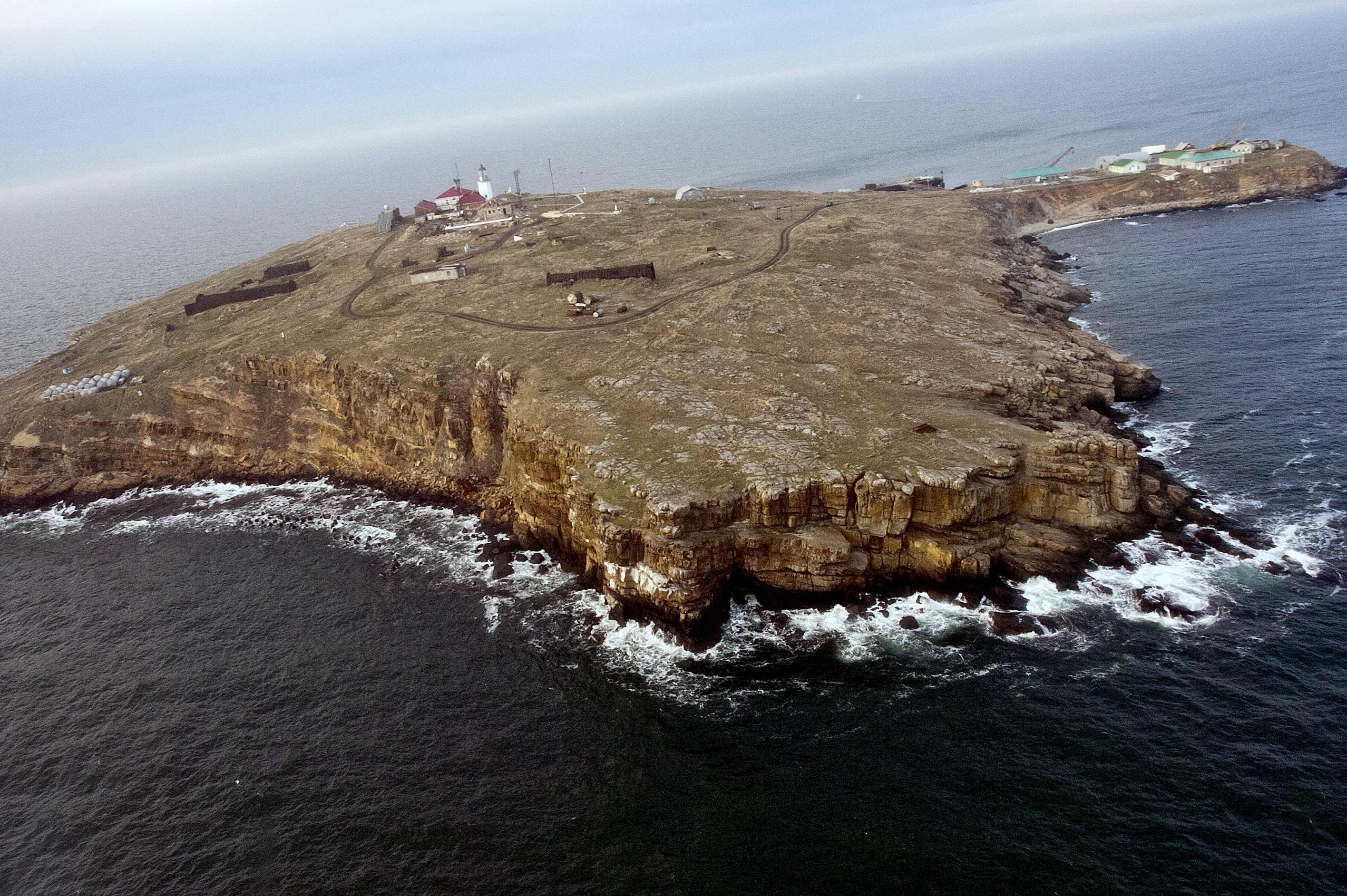 Horizon of Snake Island, Ukraine